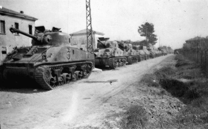 Tanks of the New Zealand 18th Armoured Regiment waiting to move up for the crossing at Senio, Italy. Taken by unidentified photographer between 1939 and 1945.